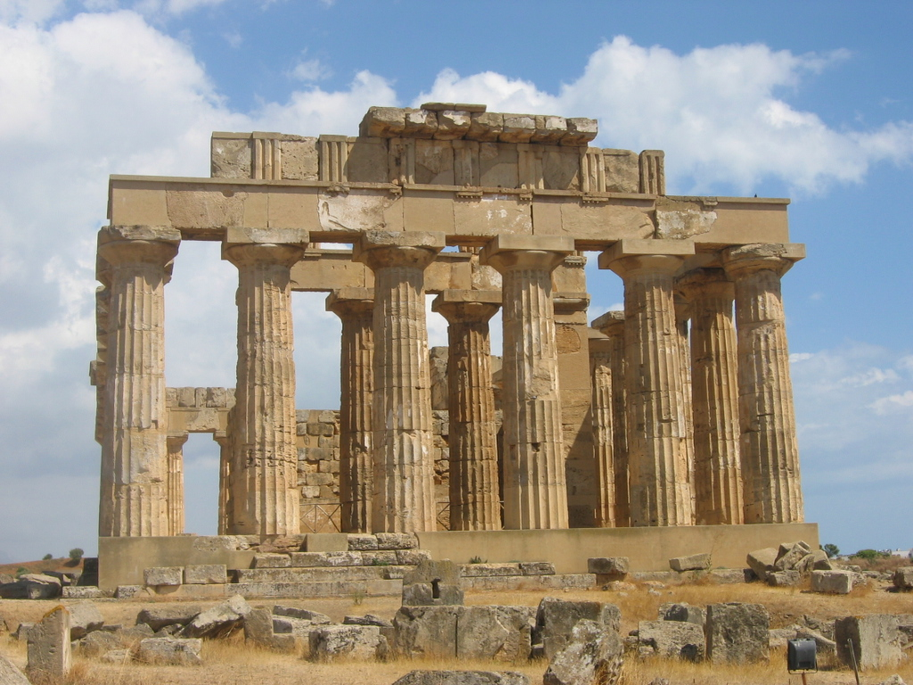 Temple E Selinunte, Sicilia.